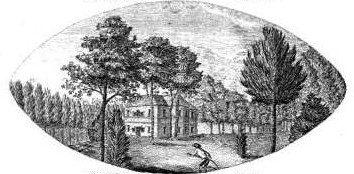 Engraving of Cockglode Hall, Sherwood Forest, Nottinghamshire, England.